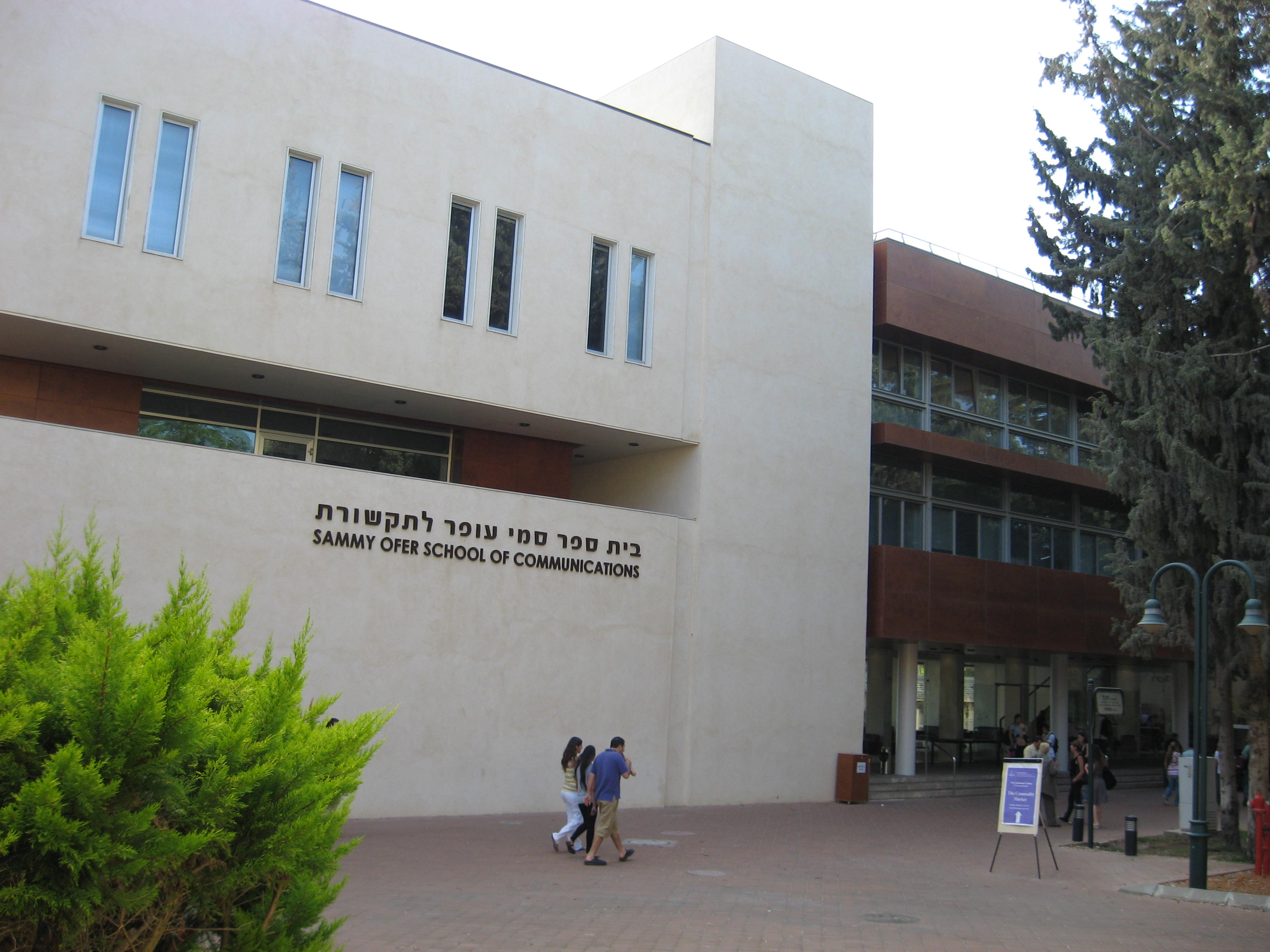 Sammy Ofer School of Communications at IDC Herzliya, hosts the Museum of Communications